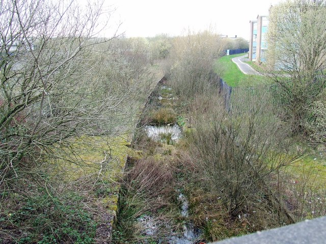 Site of Abercorn Station Viewed from the overbridge on Renfrew Road. The line ran from Paisley to Renfrew Wharf and was closed in 1967.